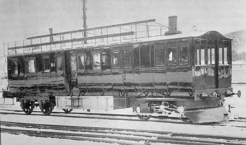 A Rowan steam railcar built for Börringe - Anderslöv Railway company 1884.(Skåne, Southern Sweden).